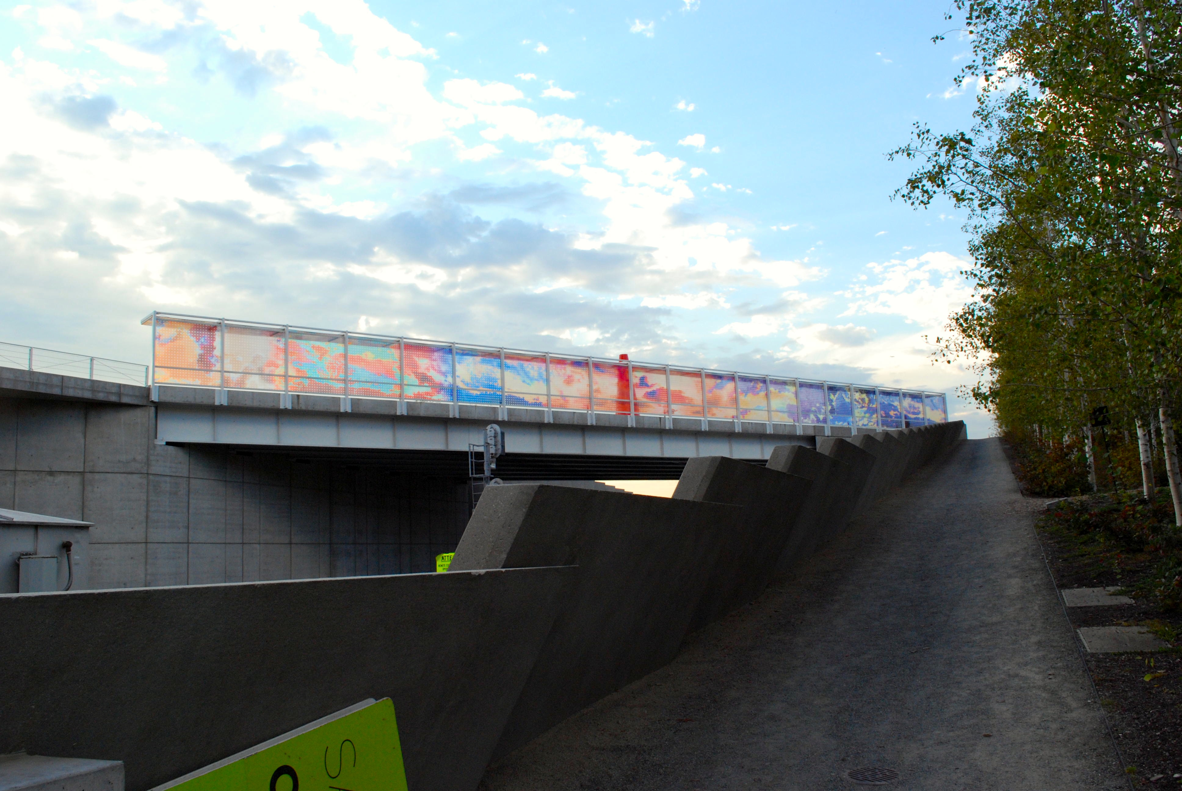 Seattle Cloud Cover 09.2008